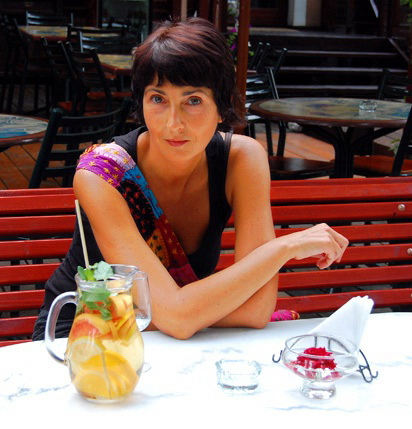 Russian writer Elena Nekrasova.